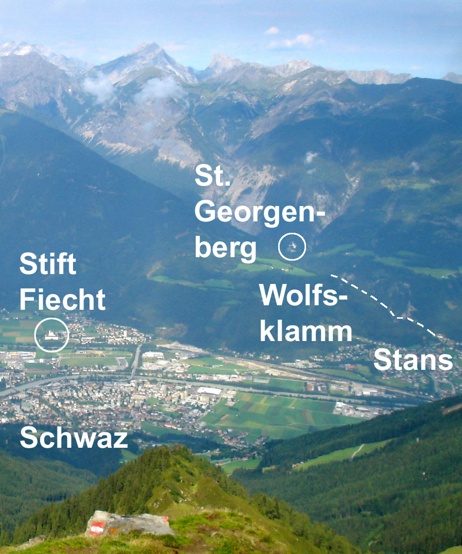 View from the Kellerjoch on Category:Schwaz, Tyrol, St. Georgenberg-Fiecht Monastery, Wolfsklamm and a part of the Tiroler Unterinntal (part of Tyrolian part of Lower Inn Valley).